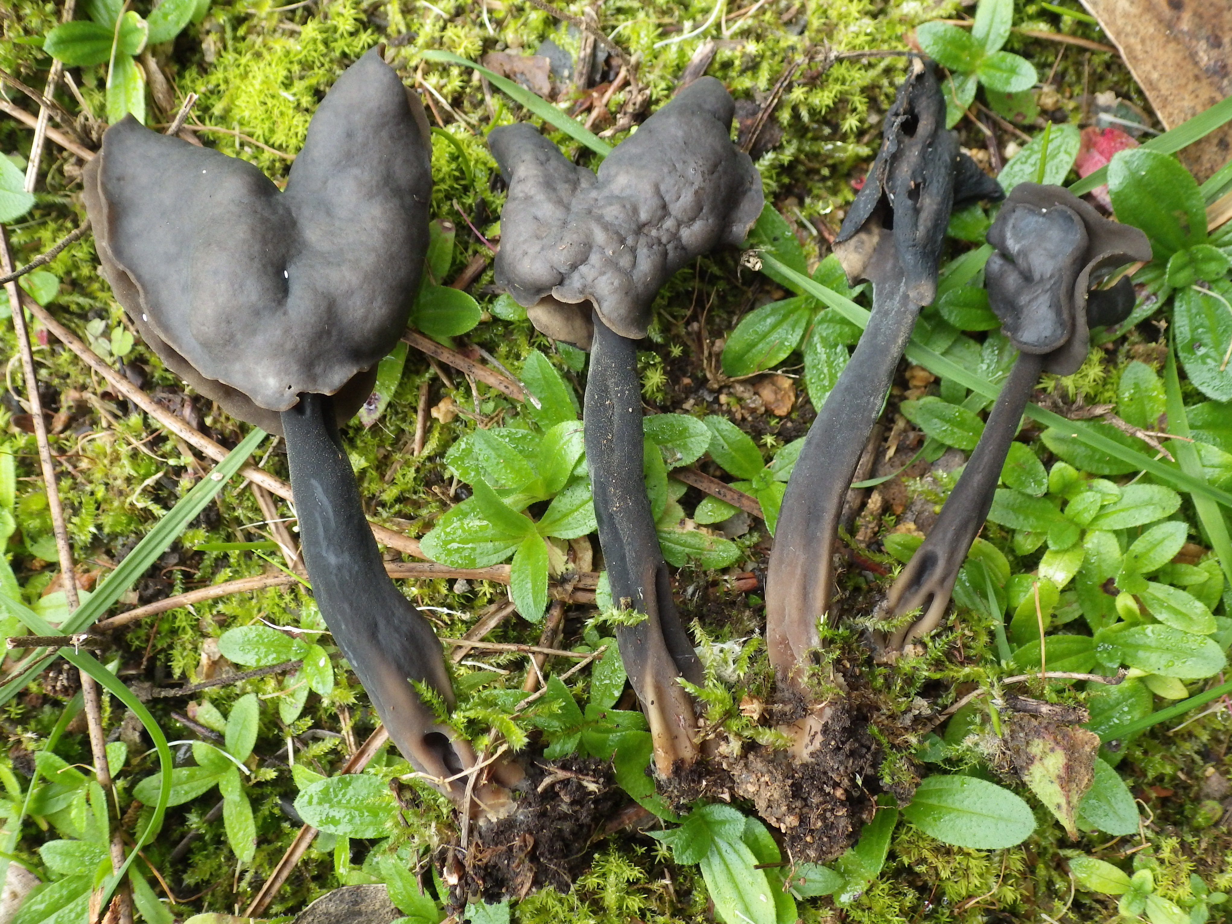 Helvella atra J. König Image location: Sintra, Portugal Recognized by sight For more information about this, see the observation page at Mushroom Observer.